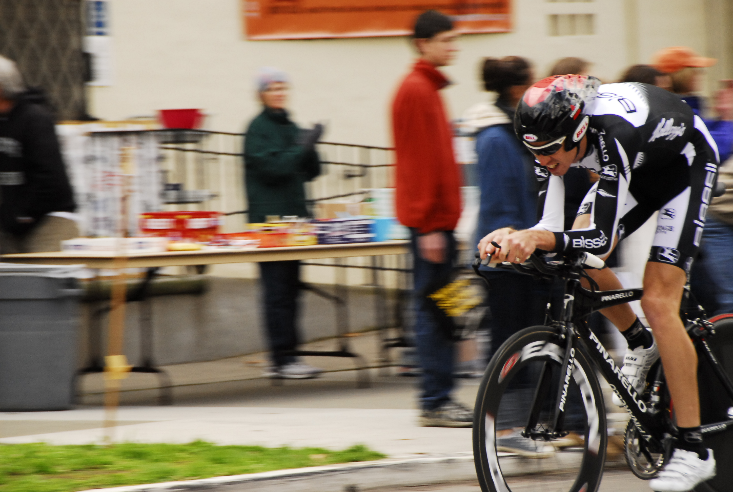 Jeremy Vennell, Tour of California 2009.